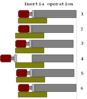 Ready to fire position. Bolt is locked to barrel, both are fully forward. Upon firing, the firearm recoils backwards into the shooter's body. The inertial mass remains stationary, compressing a spring. The bolt remains locked to the barrel, which in turn is rigidly attached to the frame. The compressed spring forces the inertial mass rearwards until it transfers its momentum to the bolt. The bolt moves to the rear, ejecting the fired round and compressing the return spring. The bolt returns to battery under spring force, loading a new round and locking into place. The shooter recovers from the shot, moving the firearm forward into position for the next shot.